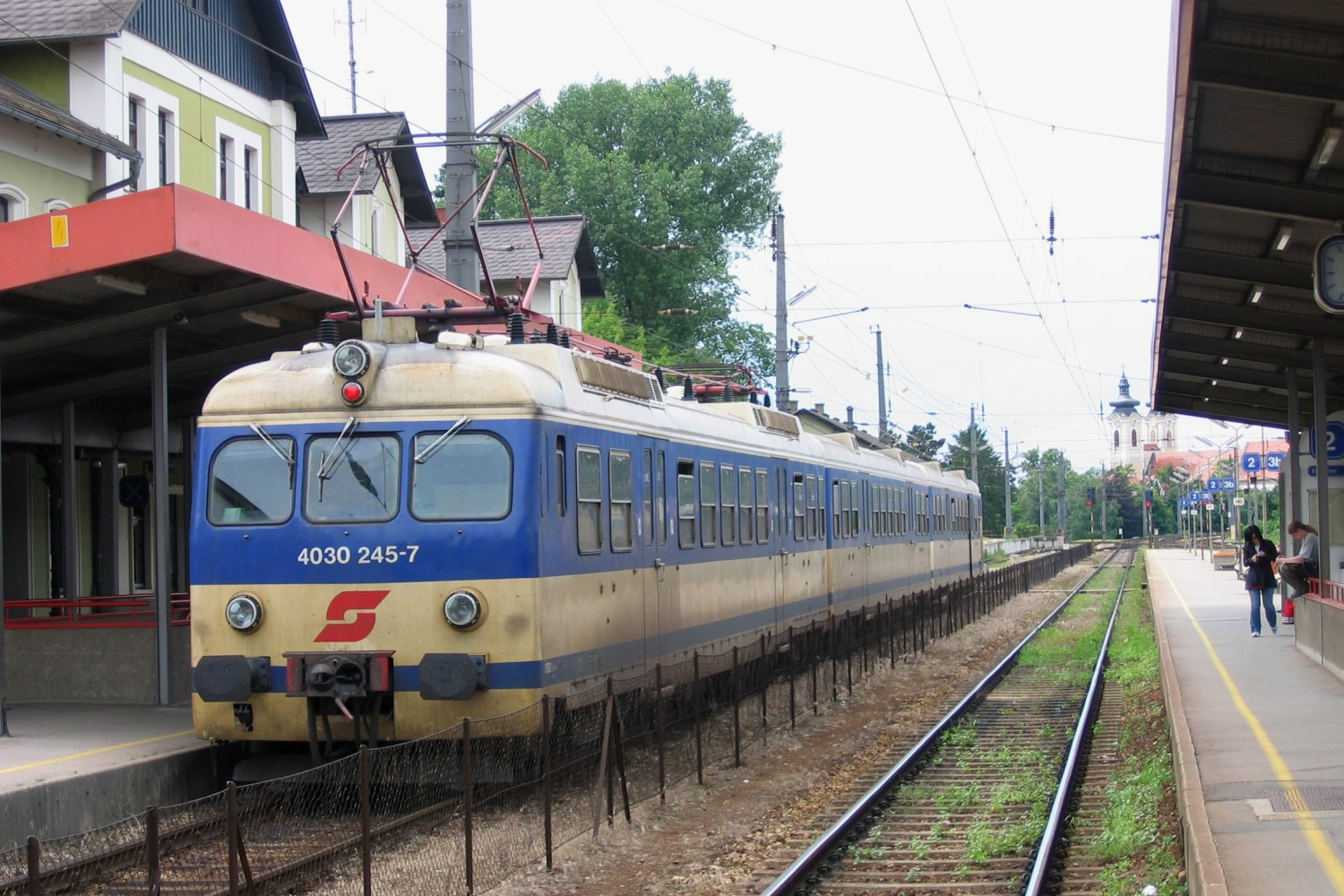 ÖBB EMU 4030 245-7 in Tulln station, Lower Austria